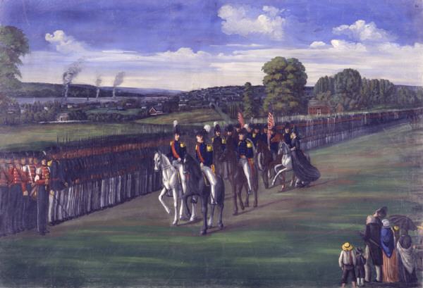 "Joseph Mustering the Nauvoo Legion" by C.C.A. Christensen